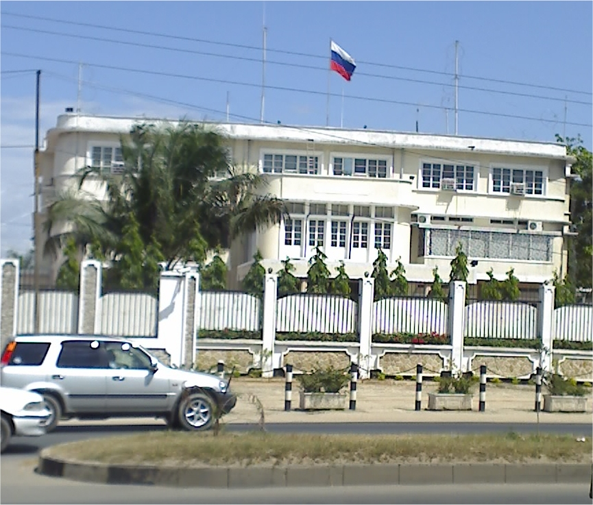 Embassy of the Russia Federation in Dar es Salaam, Tanzania.